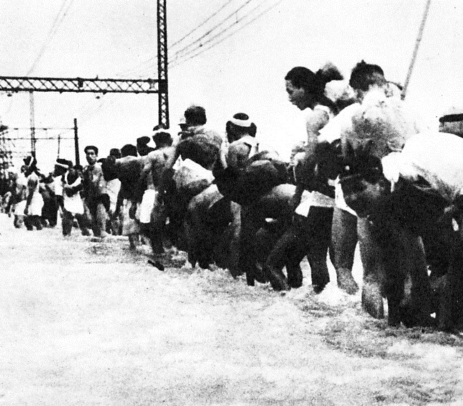 1947 Typhoon Kathleen damage at Koiwa